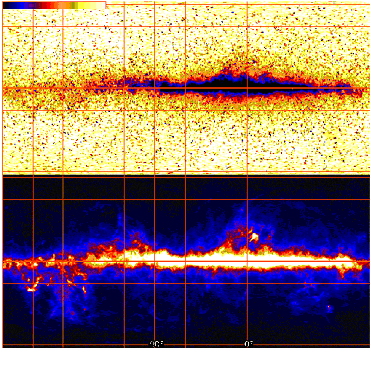 Image of the Galactic disk seen edge on by COBE (NASA Image)